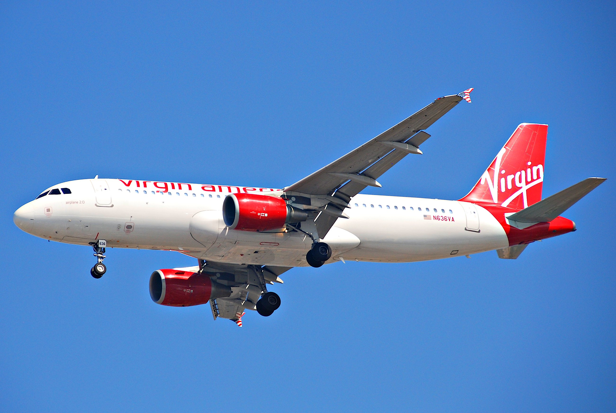 'Airplane 2.0' took its first flight: March 13, 2008...(c/n 3460)